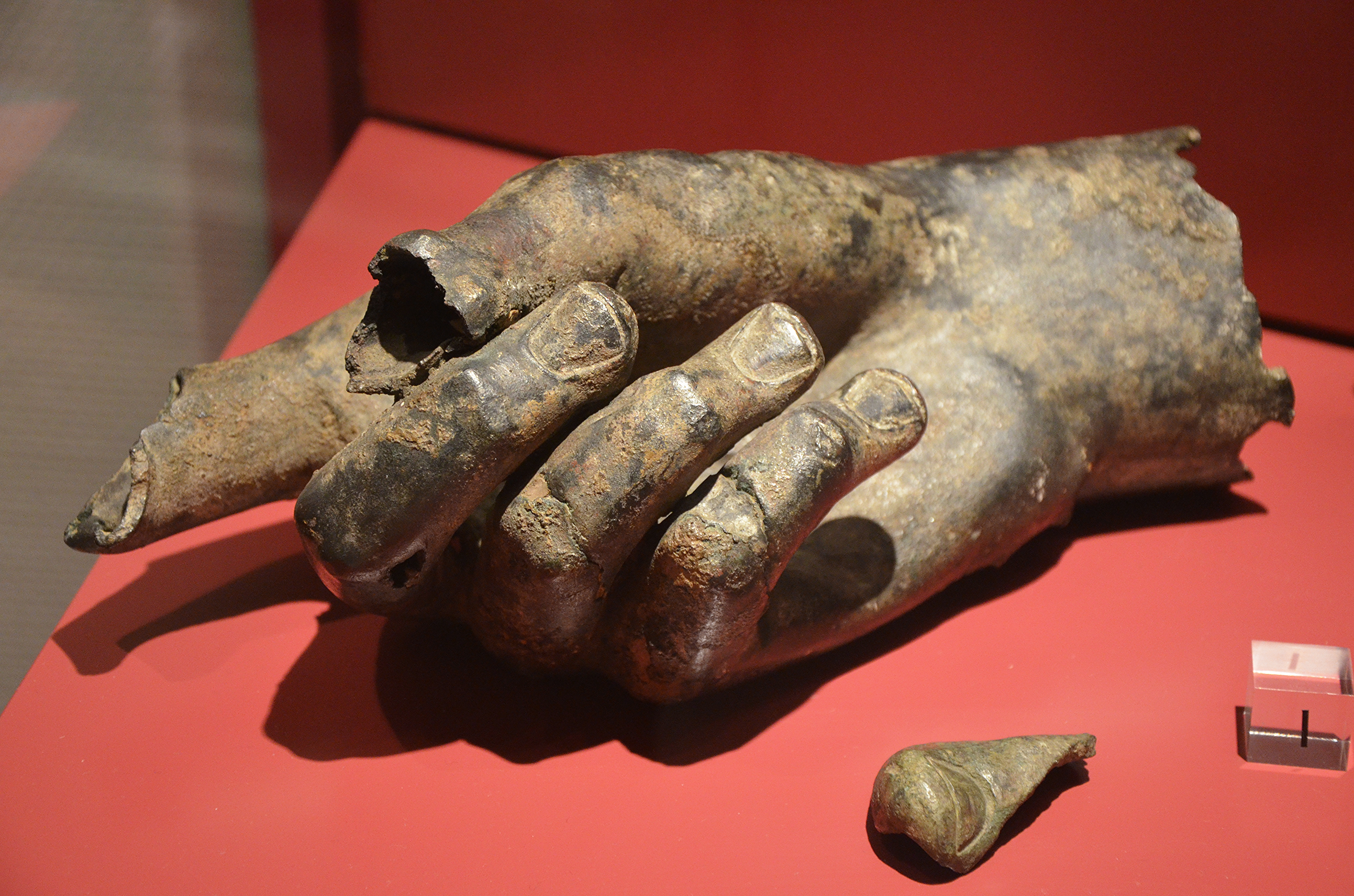 Fragments of a monumental statue found in Forum Hadriani in 1771, bronze, 2nd-3rd century AD, Voorburg, Rijksmuseum van Oudheden, Leiden